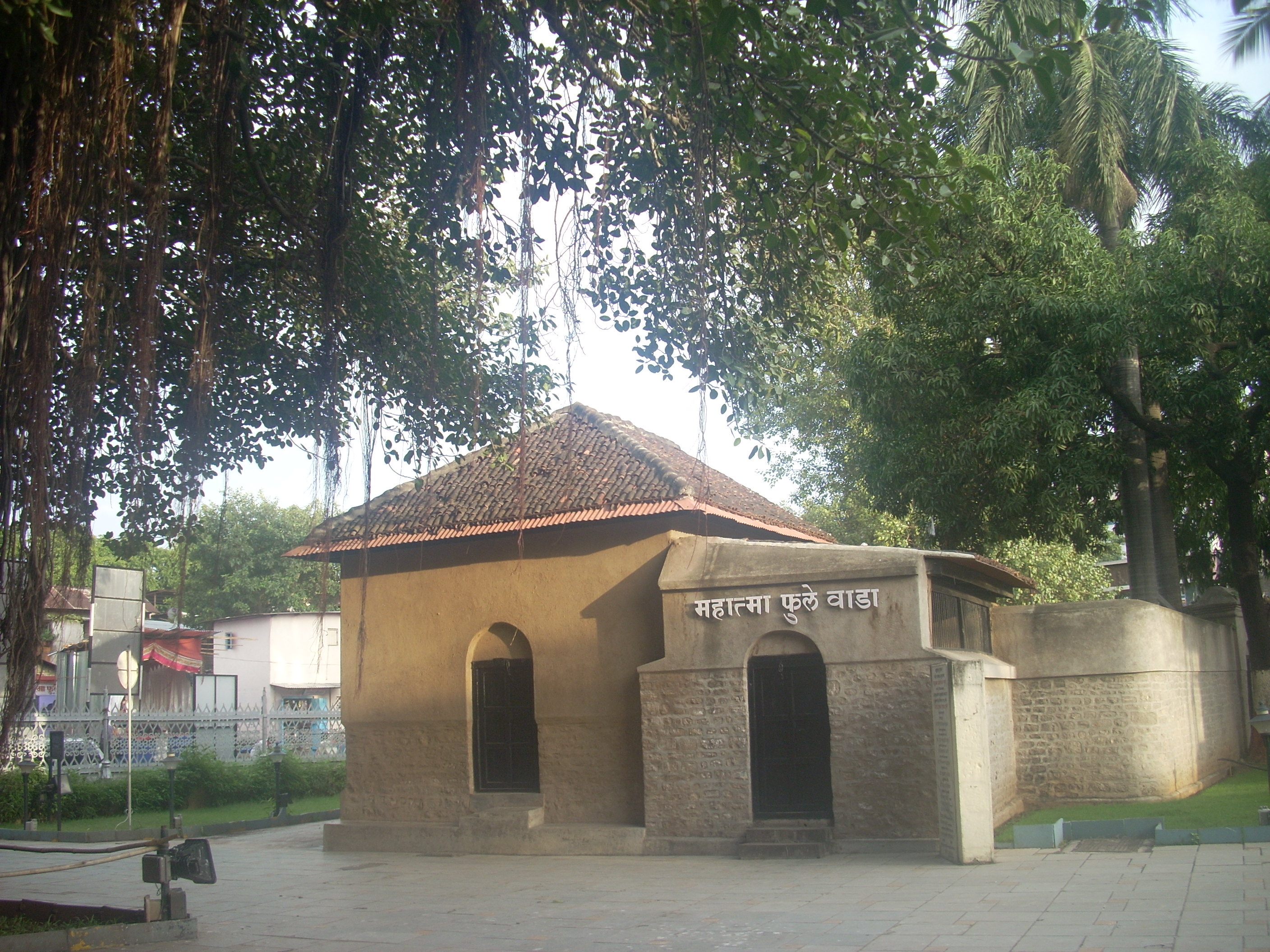 Front view of Tree at Mahatma fule vada, Pune, India